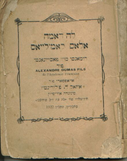 Ladino-language translation of The Lady of the Camelias by Alexandre Dumas, fils. Published in Salonica, 1922